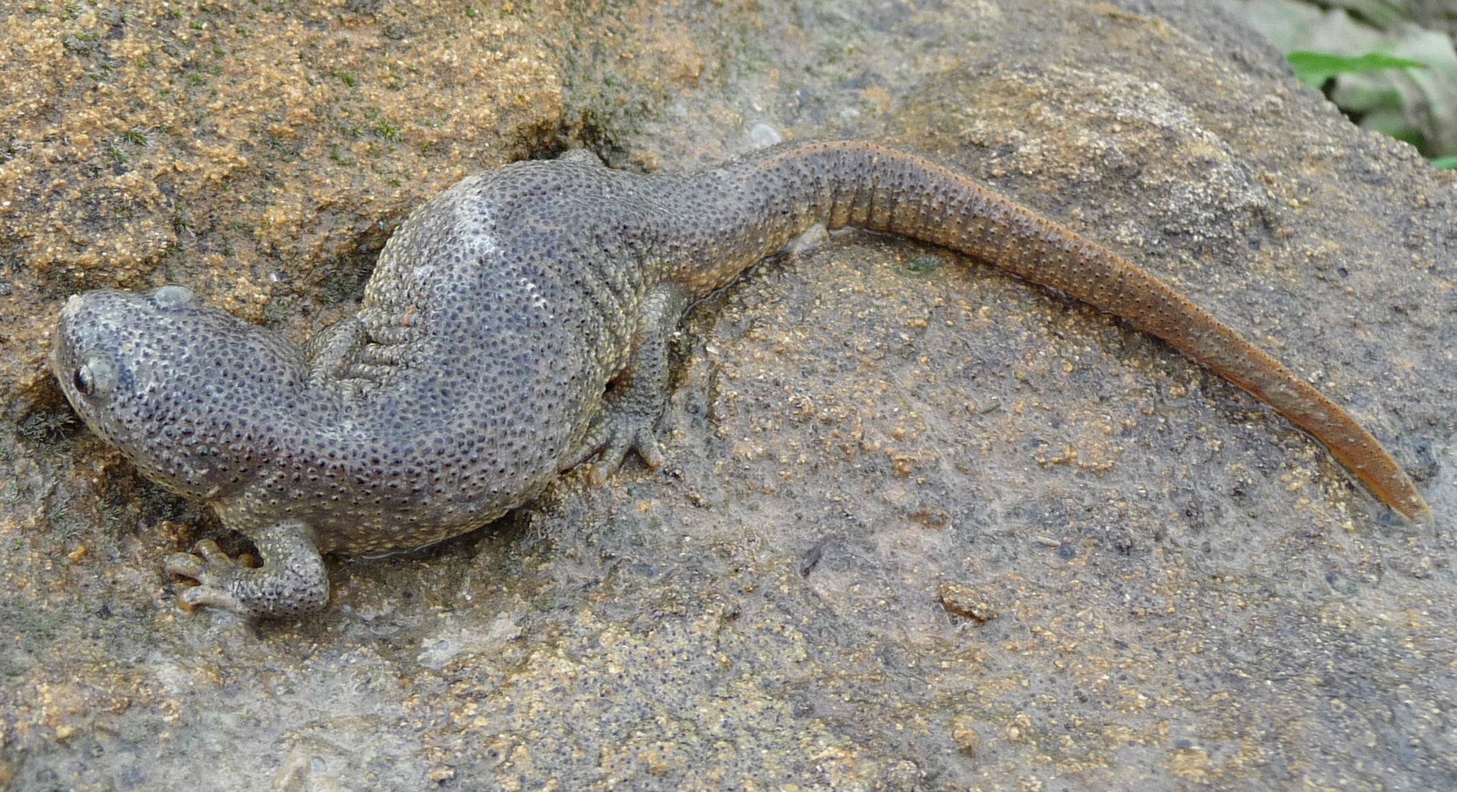 Wild Pleurodeles nebulosus in North Tunisia